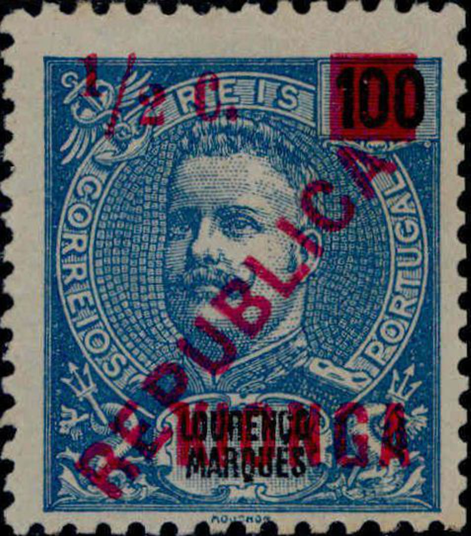 Kionga 1916 050 1